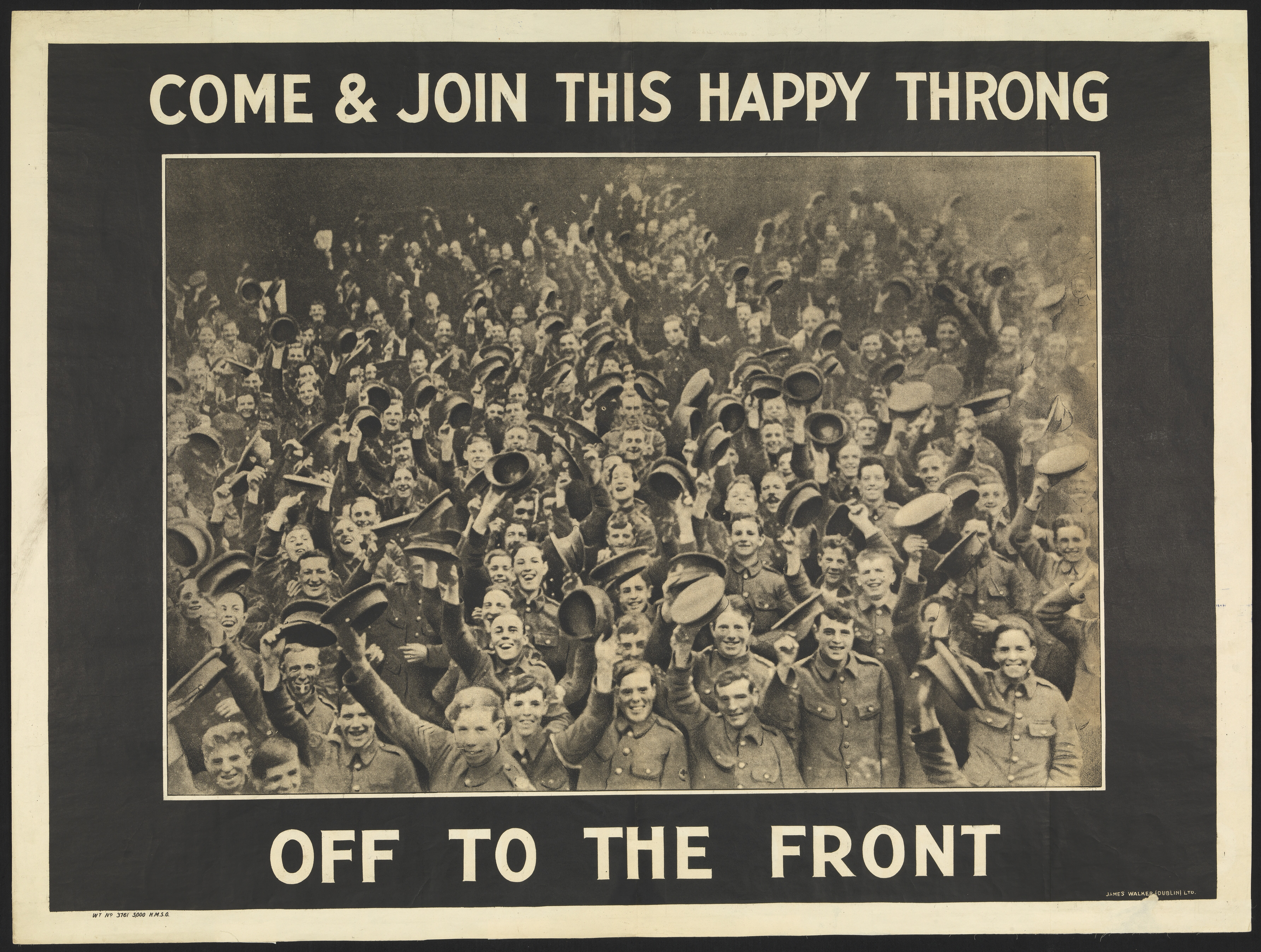 Come and Join this Happy Throng whole: the image occupies the majority, held within a narrow white border. The title and text are separate and positioned along the top edge and bottom edge, in white. All set against a black background and held within a white border. image: a photographic image of a large crowd of smiling Irish infantrymen. They look directly at the viewer holding their caps aloft. text: COME and JOIN THIS HAPPY THRONG OFF TO THE FRONT JAMES WALKER (DUBLIN) LTD. WT No. 3761 5,000 H.M.S.O.